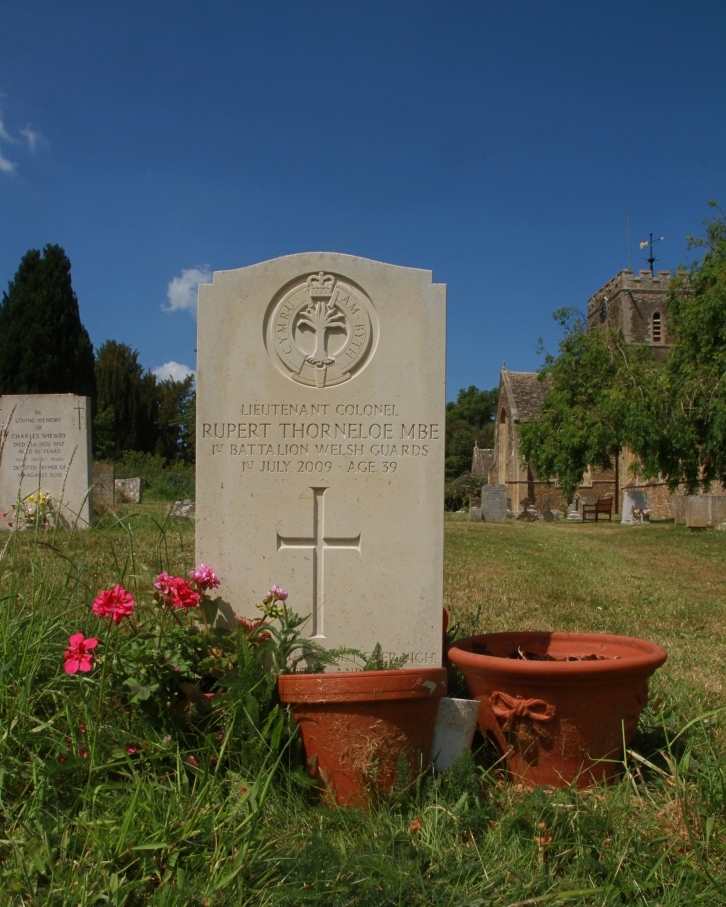 Headstone in the parish churchyard of St Mary the Virgin, Buckland, Oxfordshire, of Lt Col Rupert Thorneloe, 1 Bn Welsh Guards, who was killed in action in Afghanistan in 2009